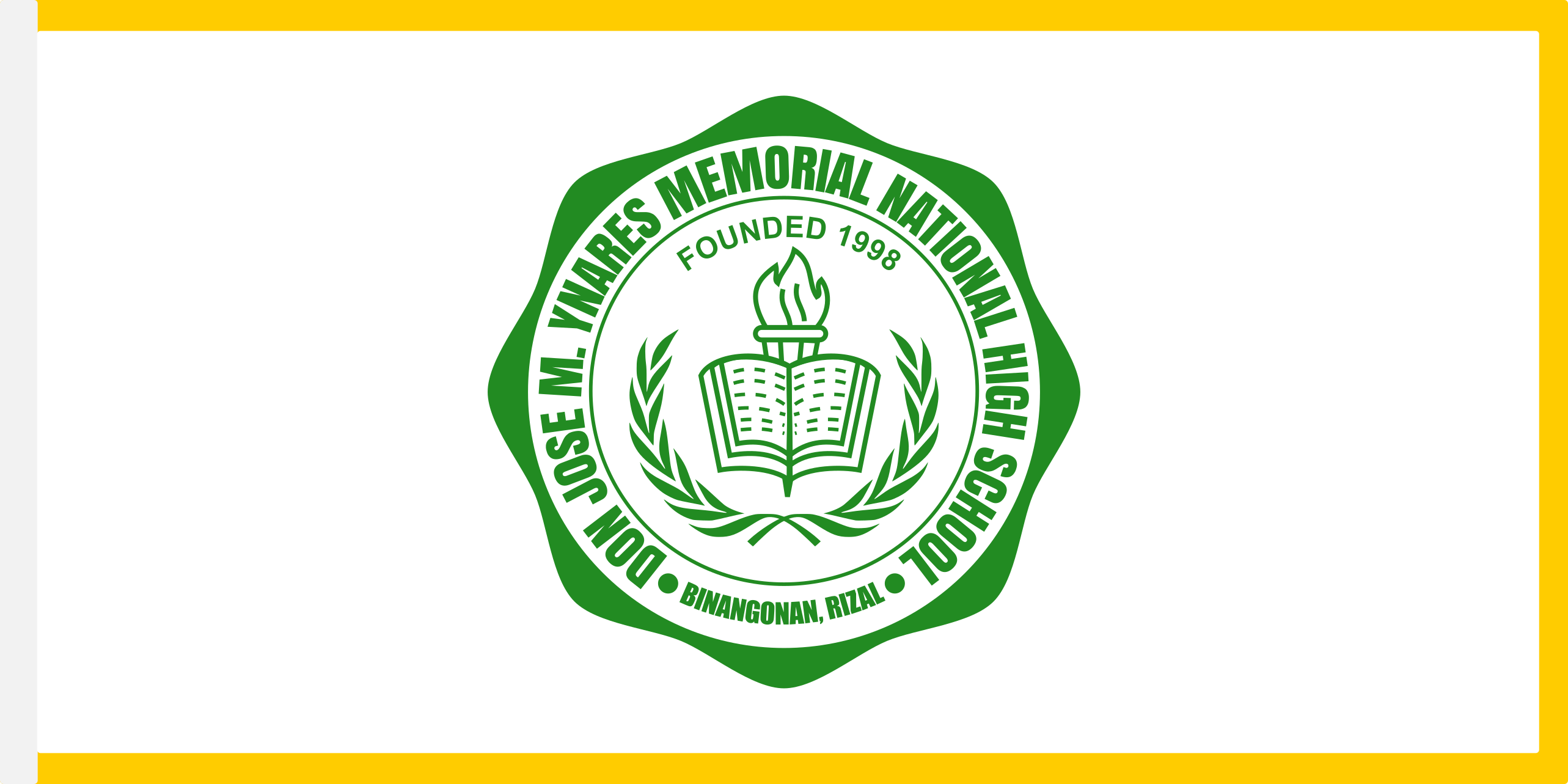 A depiction of the official flag as used by Don Jose M. Ynares Sr. Memorial National High School